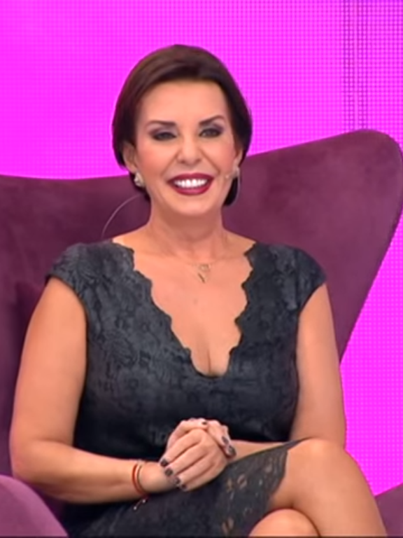 Turkish actress Perihan Savaş during a TV-show called İşte Benim Stilim.